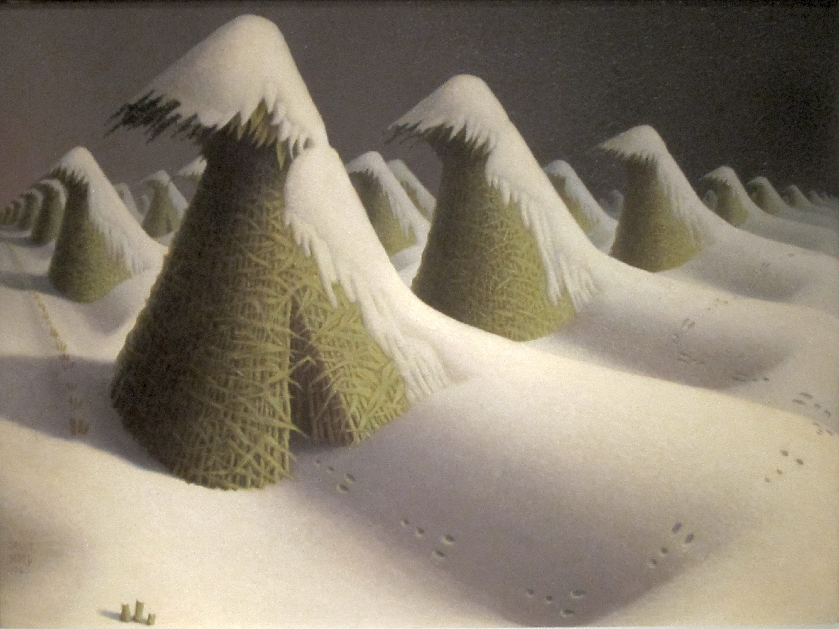 January